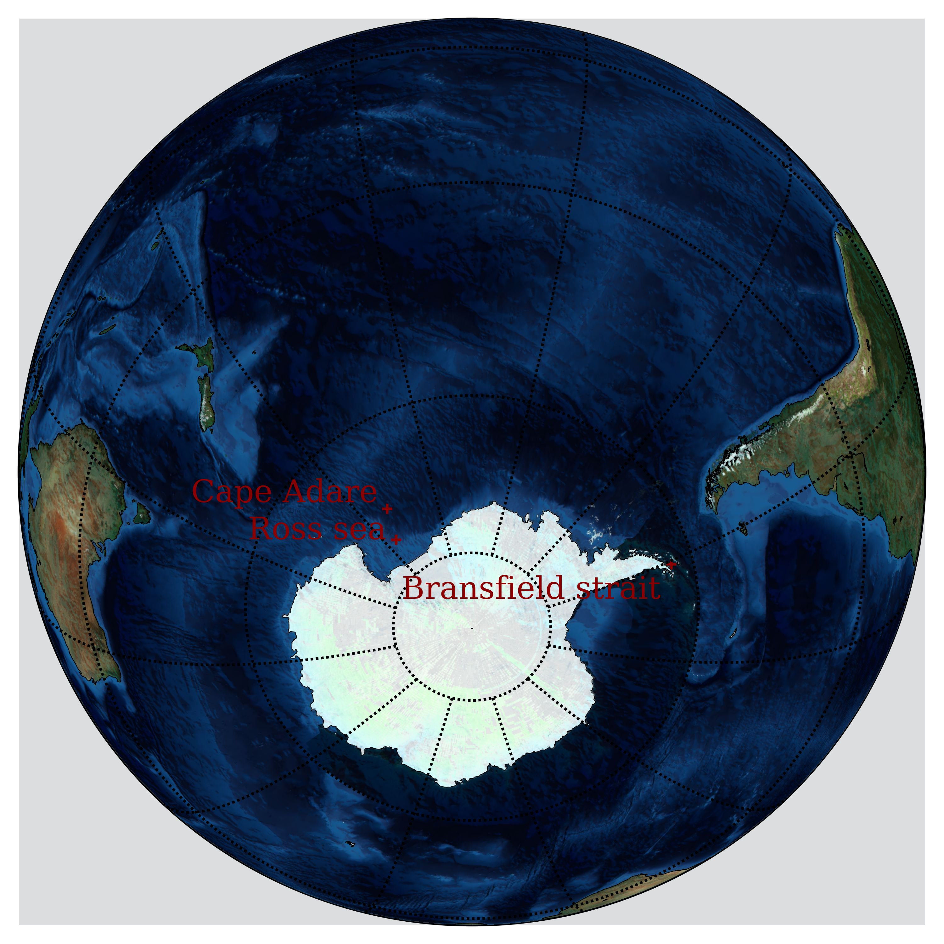 Possible locations of the Bloop, an ultra-low frequency and extremely powerful underwater sound detected by the U.S. National Oceanic and Atmospheric Administration (NOAA) in 1997.